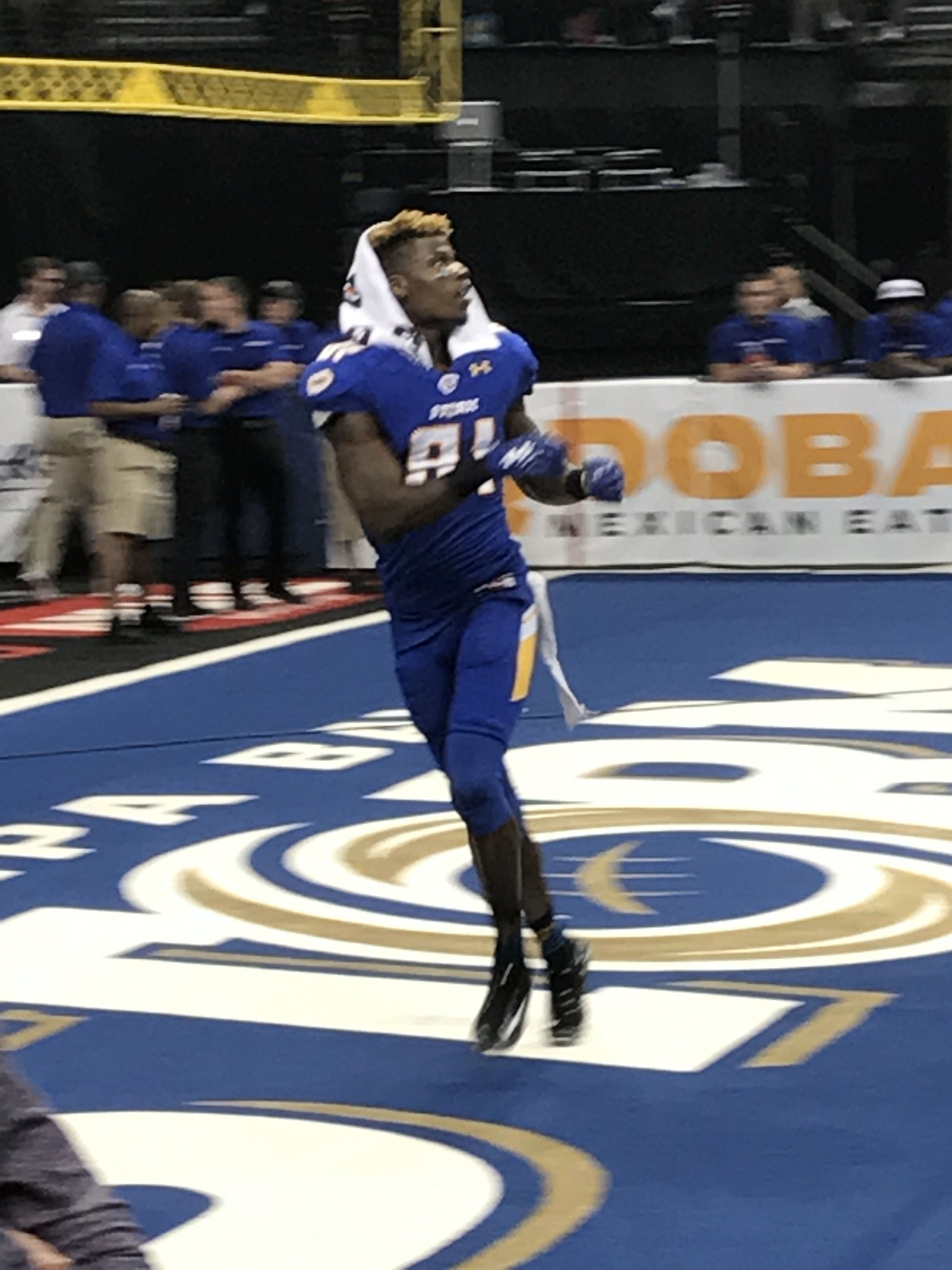 Joe Hills